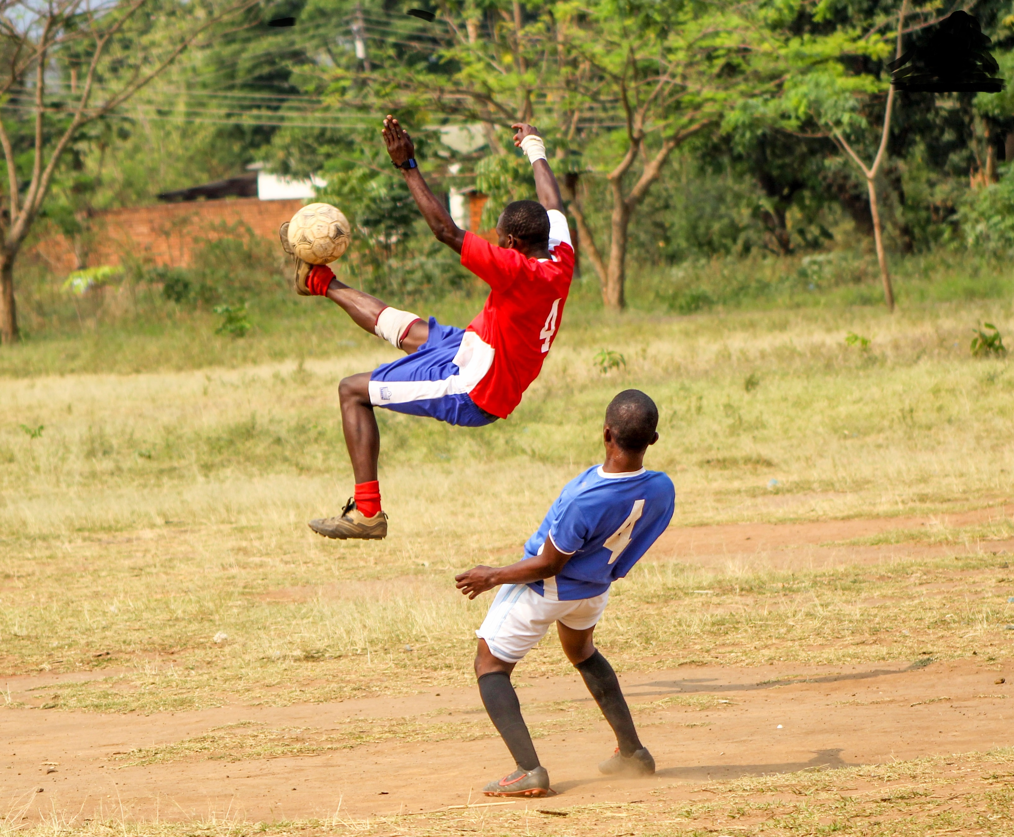 This is an image with the theme "Play" from: Malawi